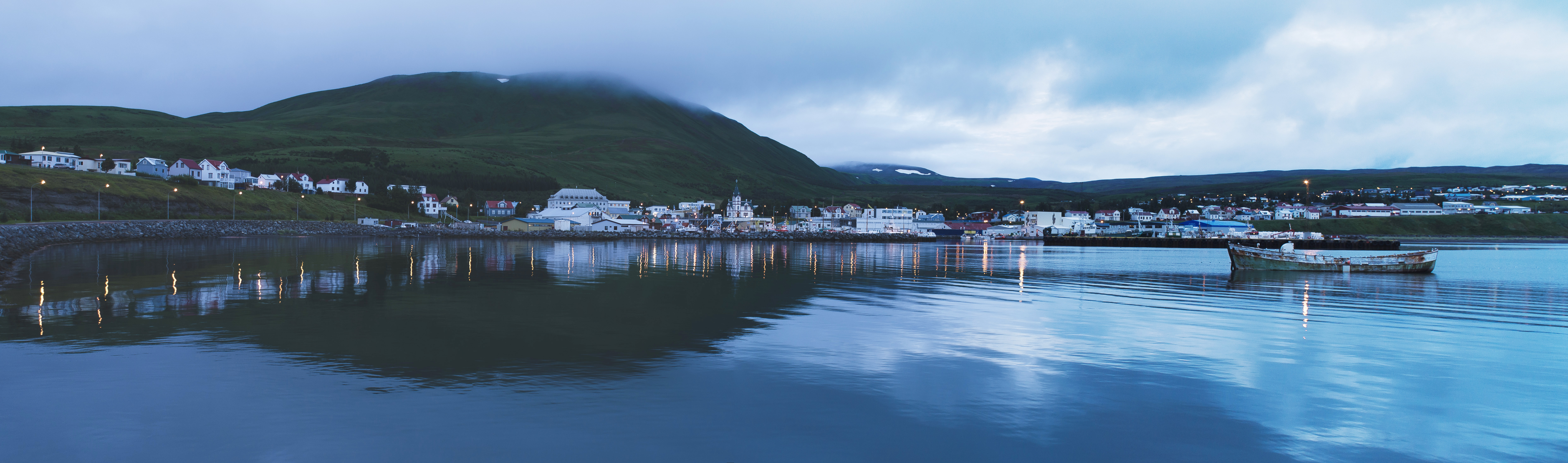 Húsavík, Iceland